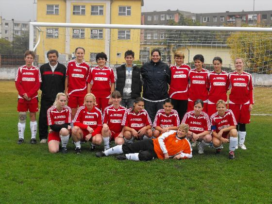 Woman football team of Dorog with Janos Haraszti coach. Thanks for Katalin Cseh for support.